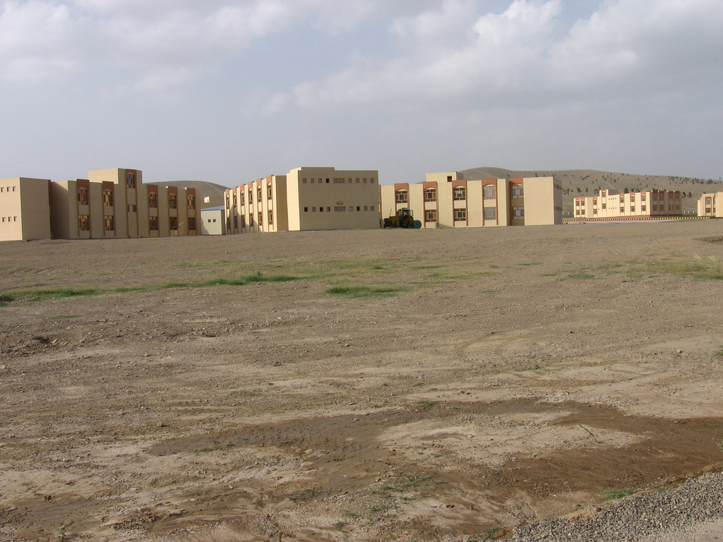 Khost University in 2007